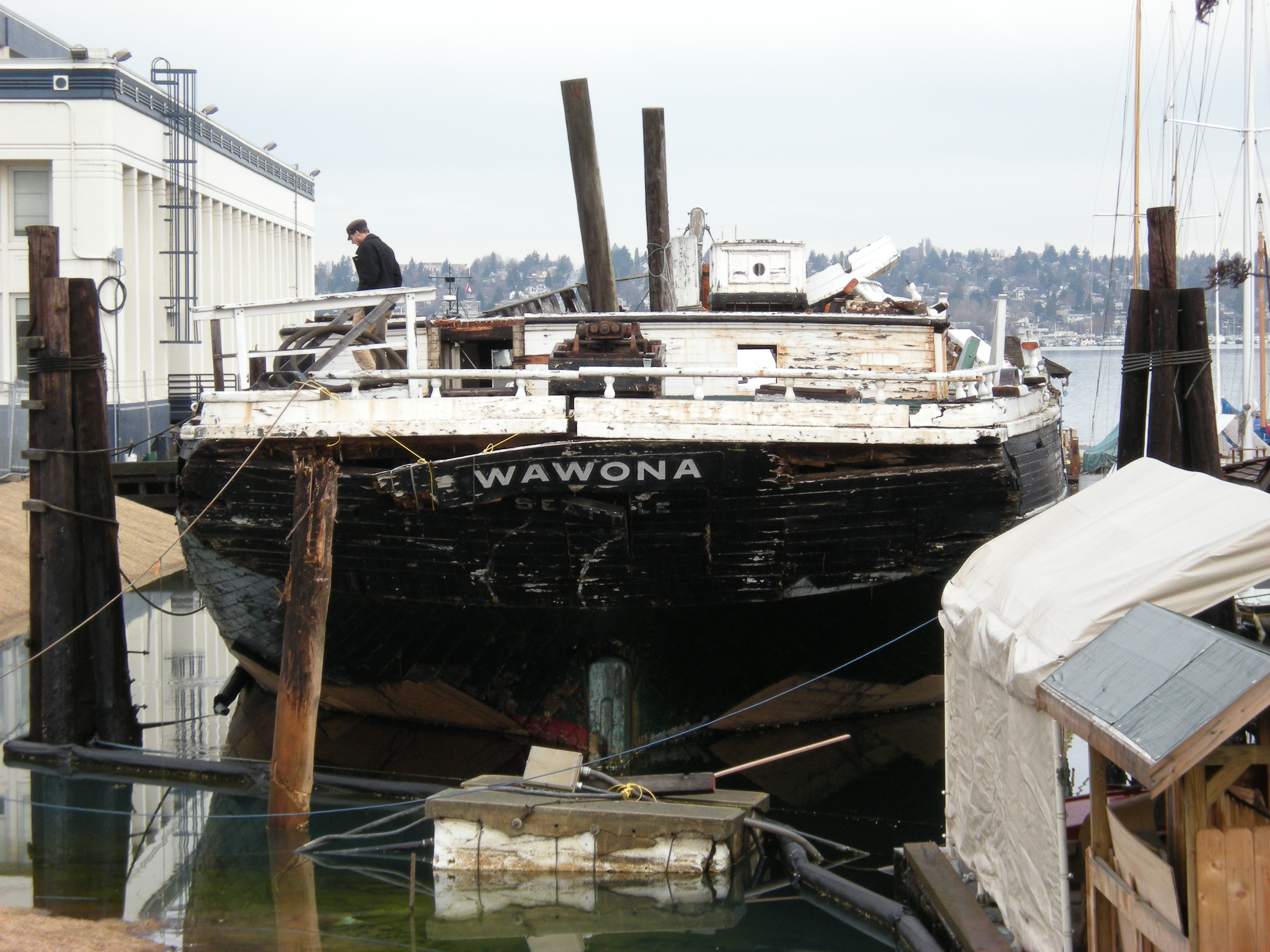 The stern of the 111-year-old schooner Wawona on its last full day at Northwest Seaport, South Lake Union, Seattle, Washington before being towed away to be dismantled.